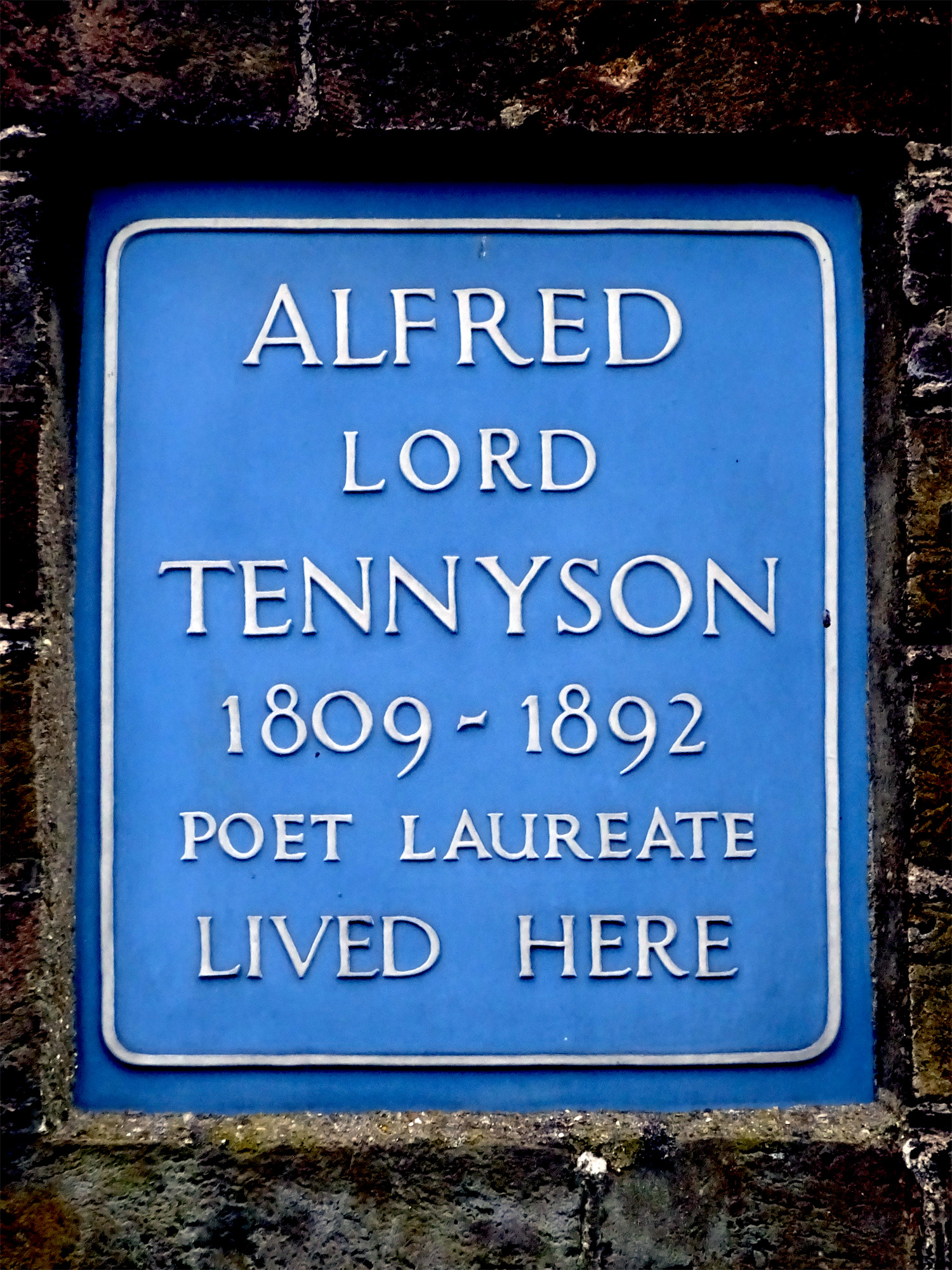 Blue plaque at 15 Montpelier Row Twickenham TW1 2NQ